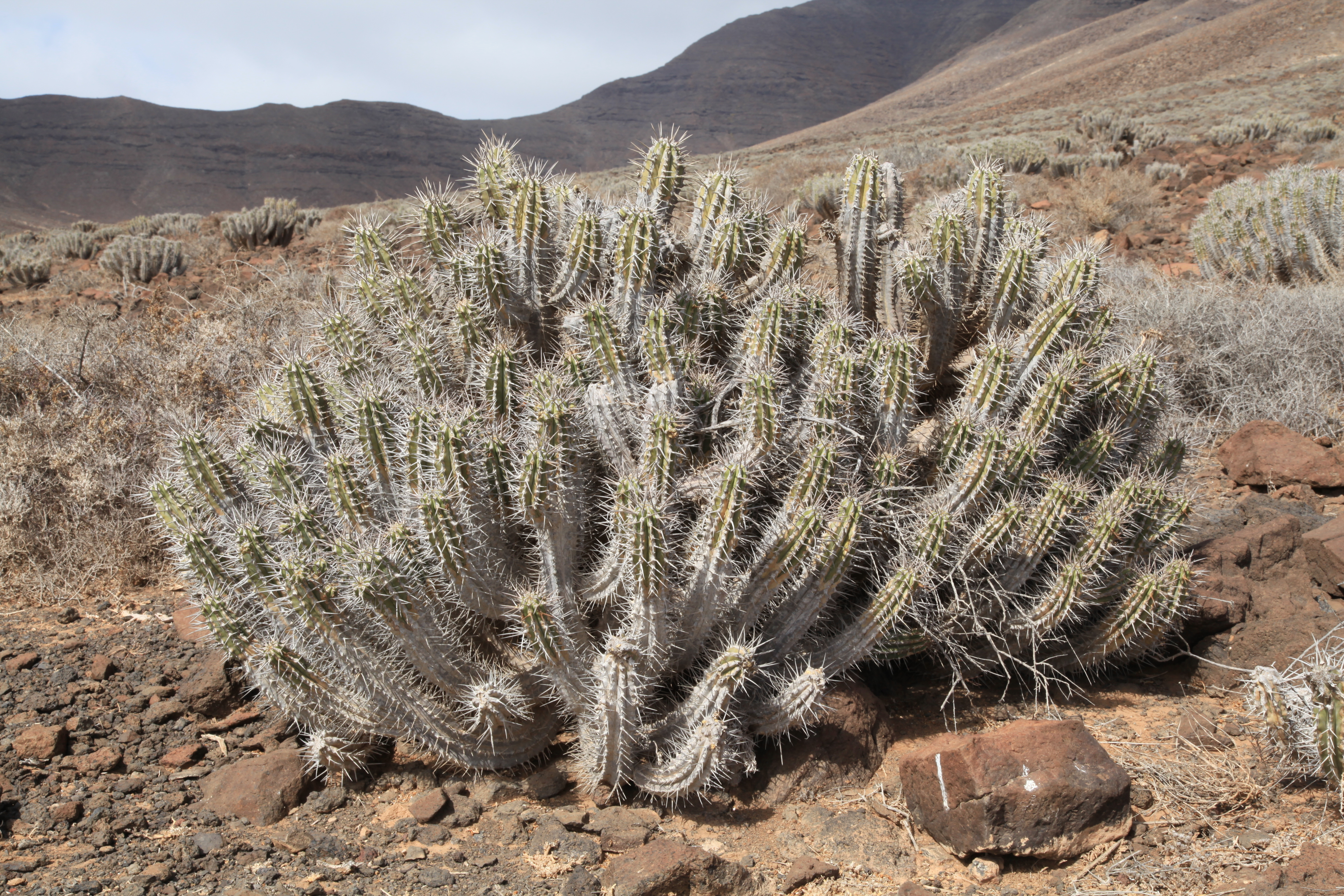 Euphorbia handiensis growing at Carretera Punta de Jandía in Pájara, Fuerteventura, Canary Islands